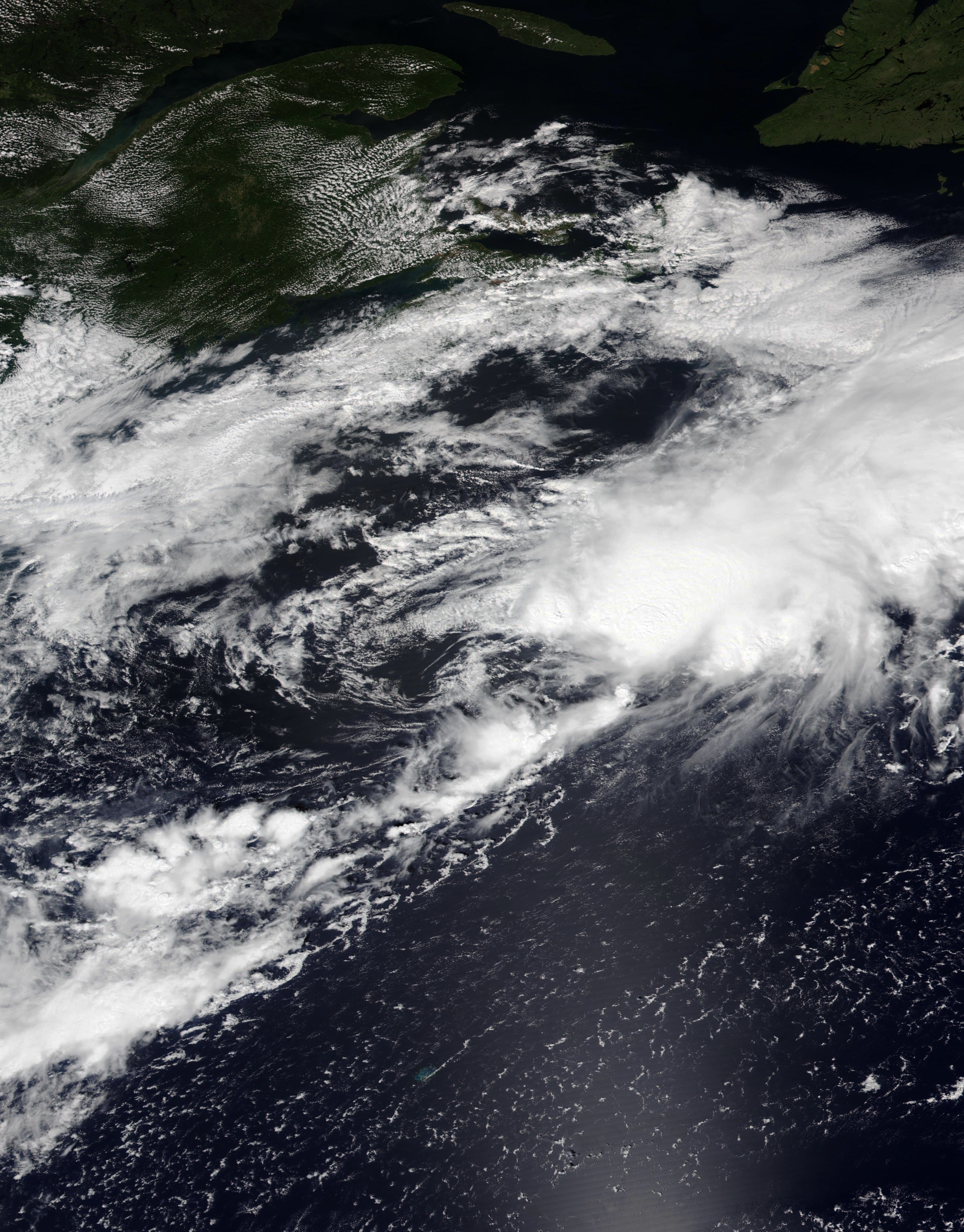 Tropical Storm Kyle on August 15, 2020